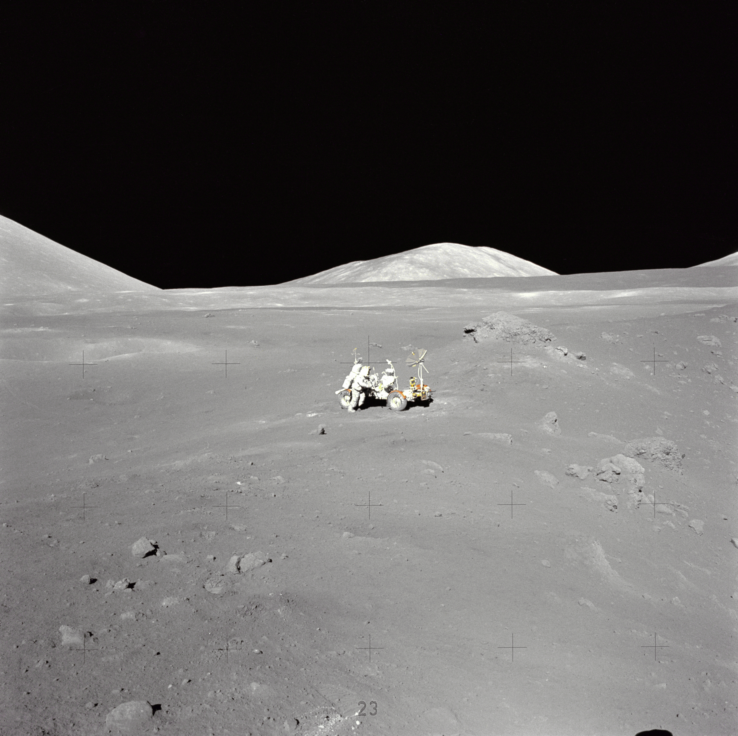 An extraordinary lunar panorama at Station 4 (Shorty Crater) showing Geologist-Astronaut Harrison H. Schmitt working at the Lunar Roving Vehicle (LRV) during the second Apollo 17 extravehicular activity (EVA-2) at the Taurus-Littrow landing site. This is the area where Schmitt first spotted the orange soil. Shorty Crater is to the right. The peak in the center background is Family Mountain. A portion of South Massif is on the horizon at the left edge.